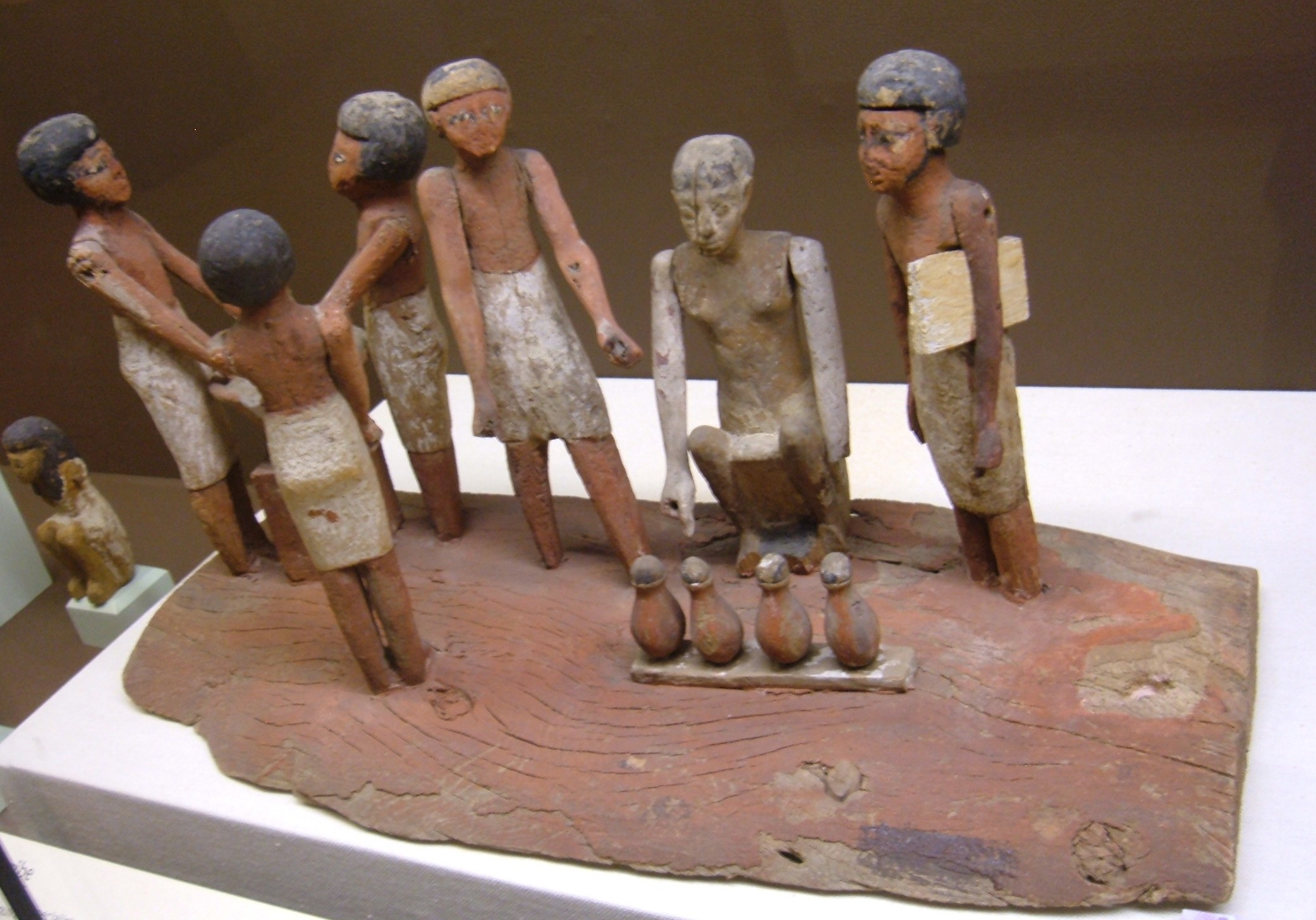 Wooden brewery model (Middle Kingdom) on display at the Rosicrucian Egyptian Museum in San Jose, California. Barley beer is being brewed, with the men on the left mashing the yeast starter in a bowl for fermenting, while the ones on the right are bottling. The rightmost figure with a tablet tucked under his arm is a scribe, counting the bottles. RC 483